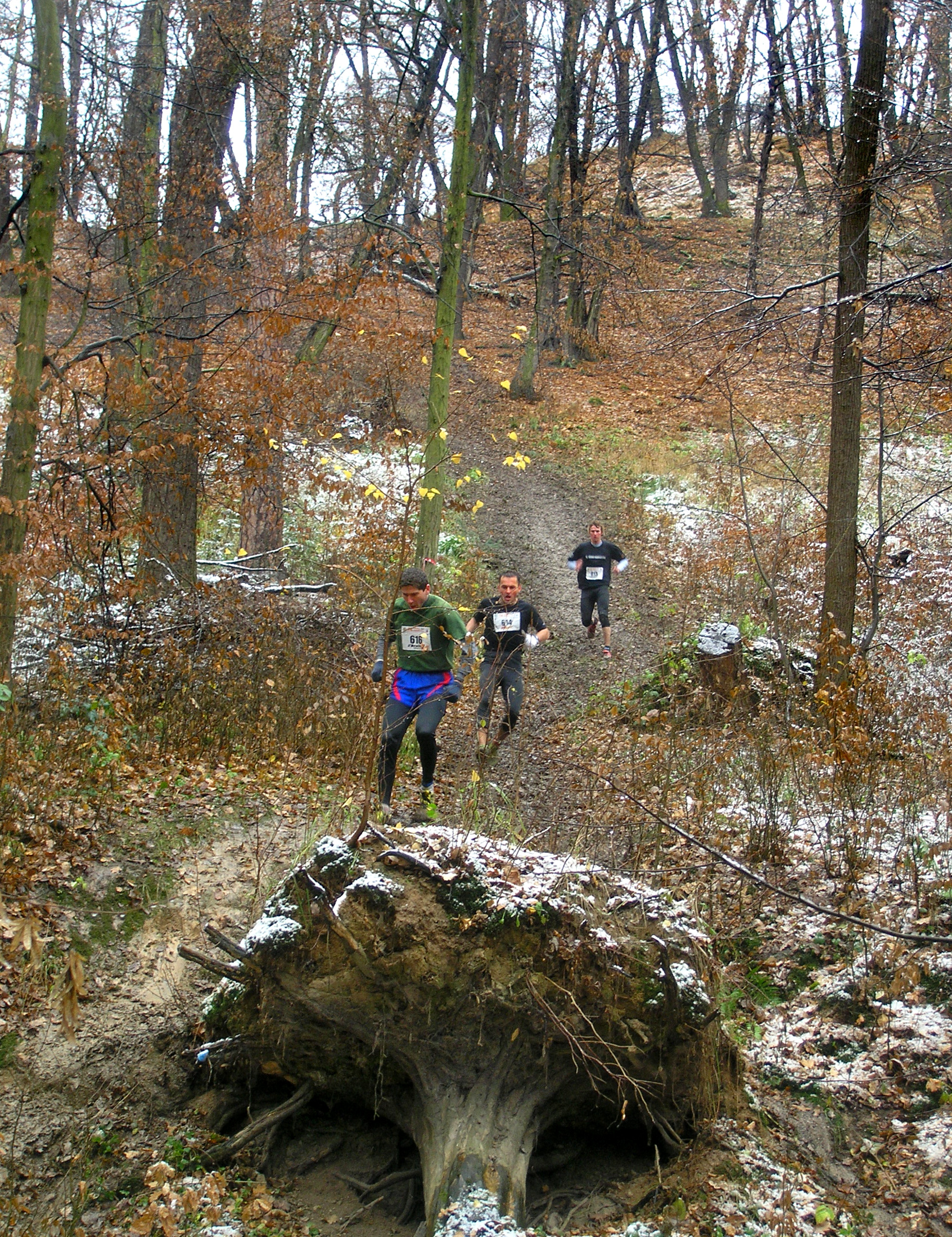 Velká kunratická - cross country running in Prague, Czech Republic: Ondřej Beran and Martin Vaněk